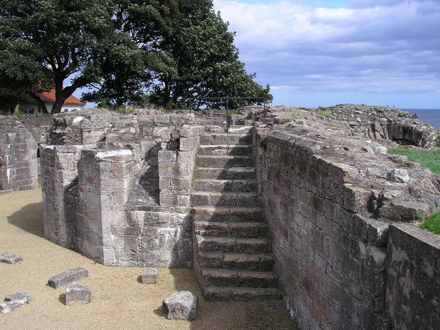 Henry VIII's Gun tower Built in 1522